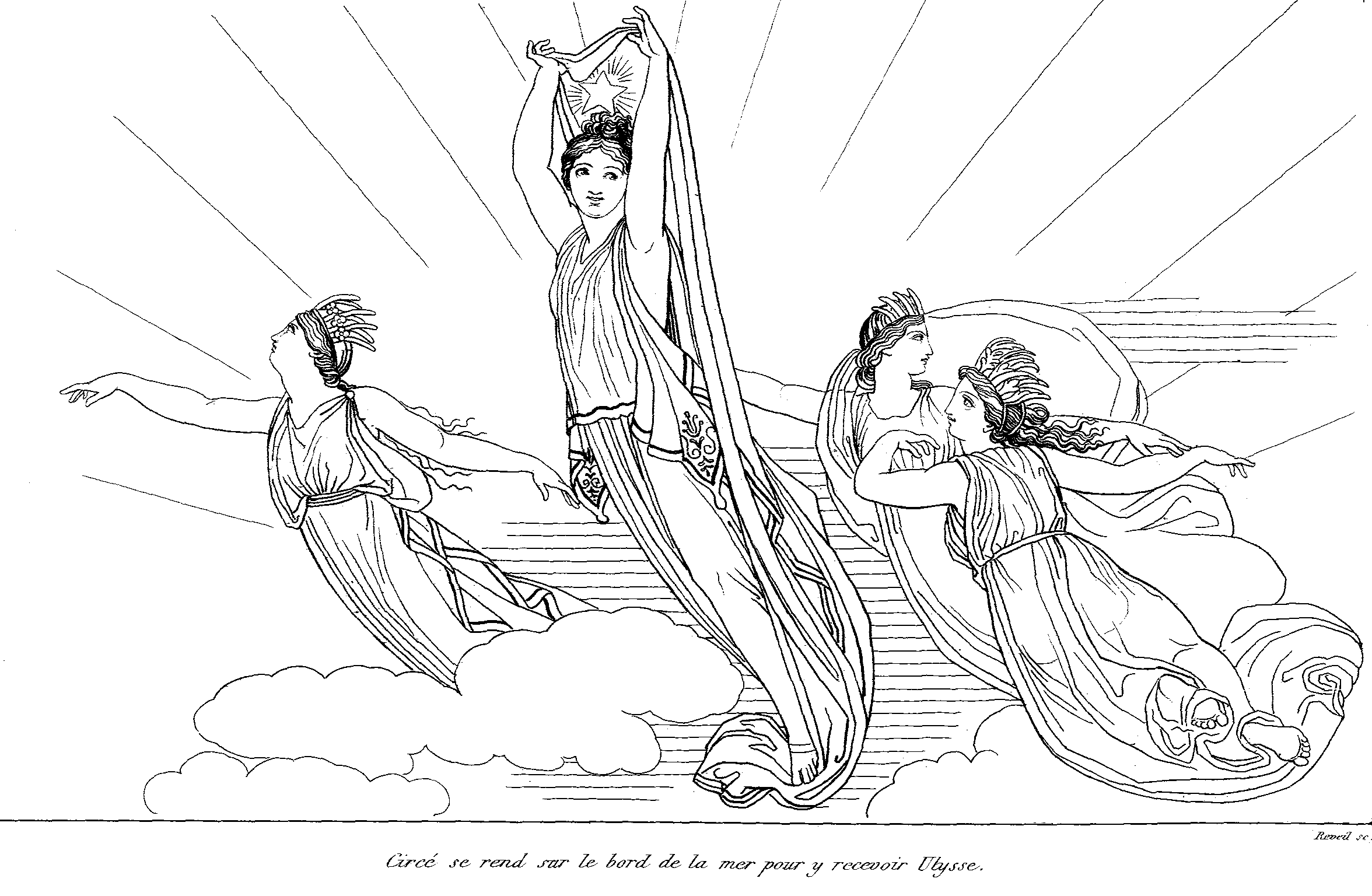 Illustrations of Odyssey